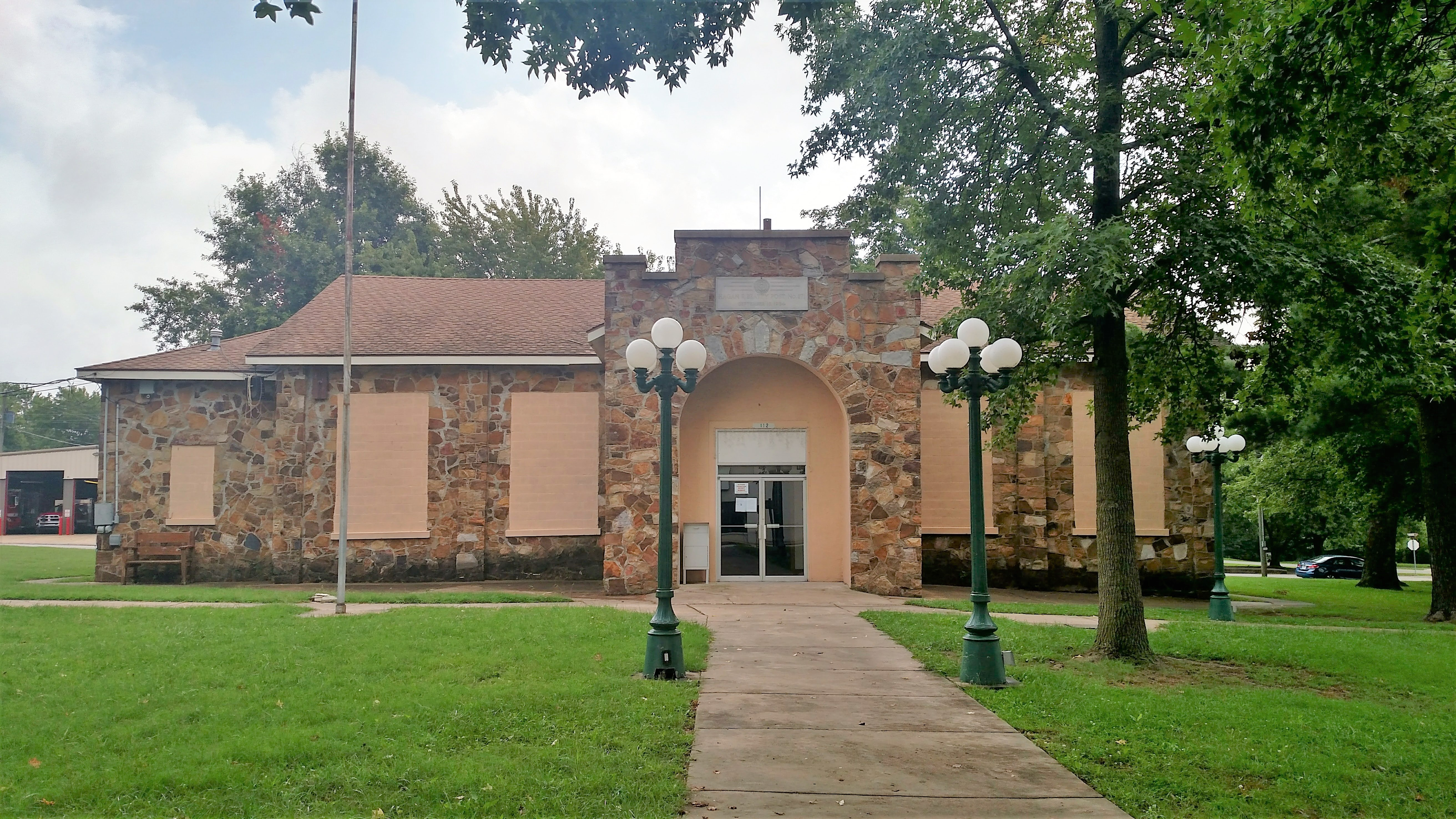 Building in the town square of Lincoln, AR